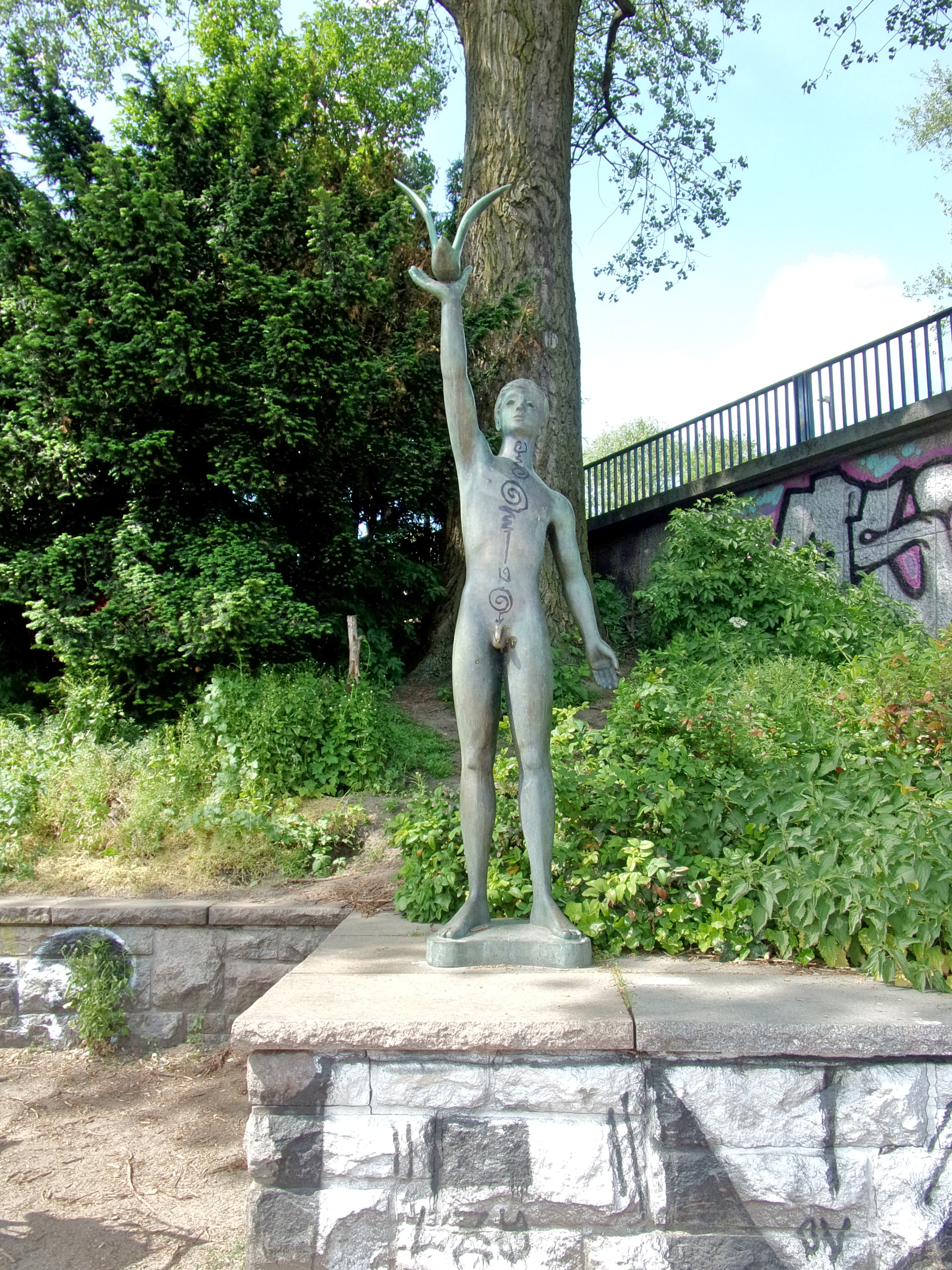 Sculpture " Youth with seagull ", 1955 by Fritz Fleer, bronze. Place of location is the green area between Kennedy.- and Lombardsbridge, Hamburg-Neustadt.